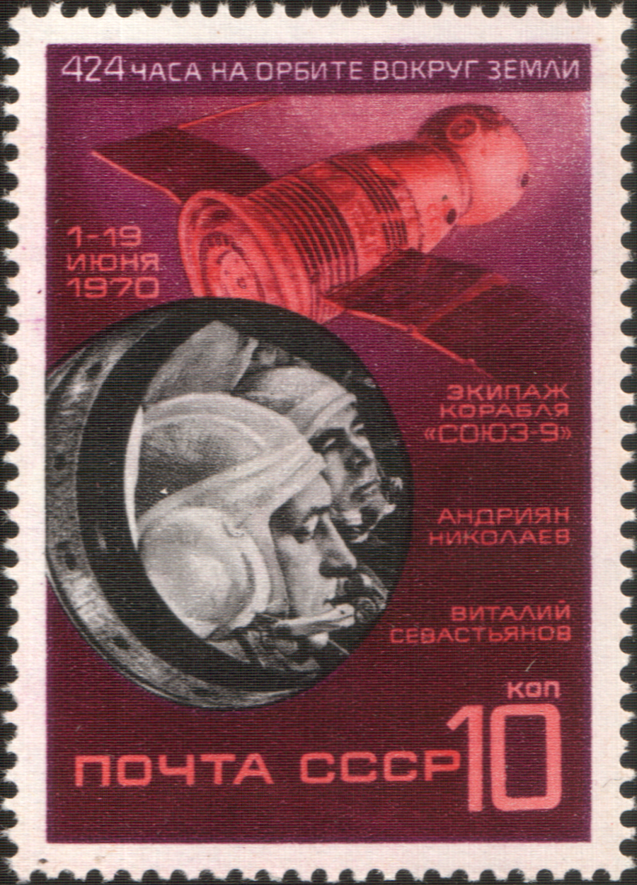 USSR stamp: Cosmonauts Andriyan Nikolayev and Vitaly Sevastyanov, Soyuz 9. Series: 424 Hour Space Flight of Soyuz 9, June 1–19